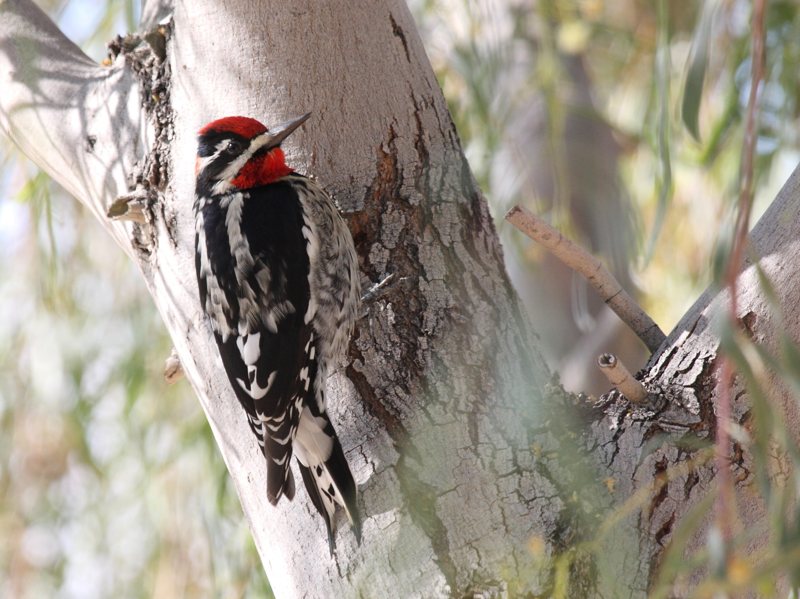 Red-naped Sapsucker (Sphyrapicus nuchalis)